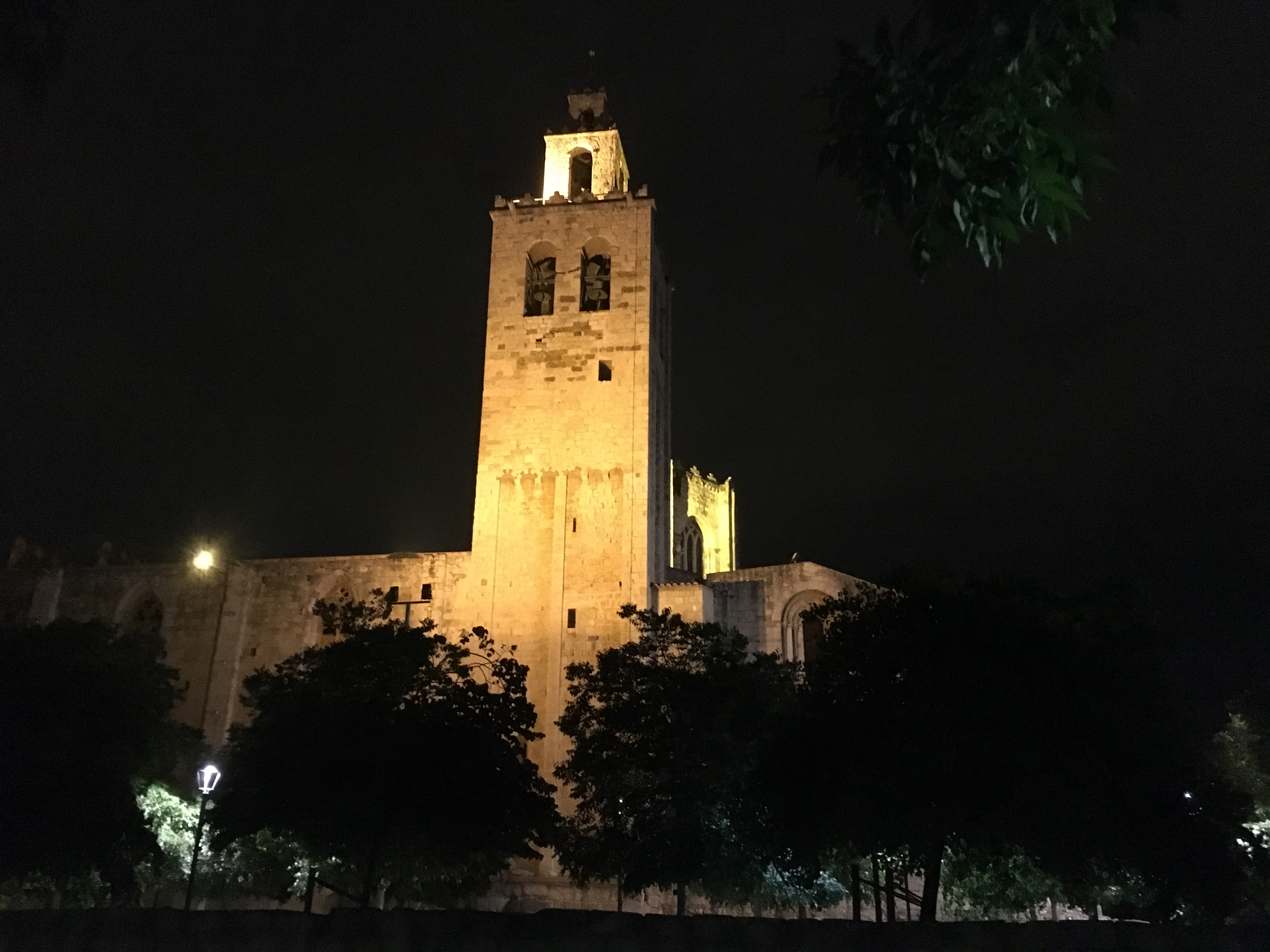 Monastery of Sant Cugat lit at night on May 19, 2018.